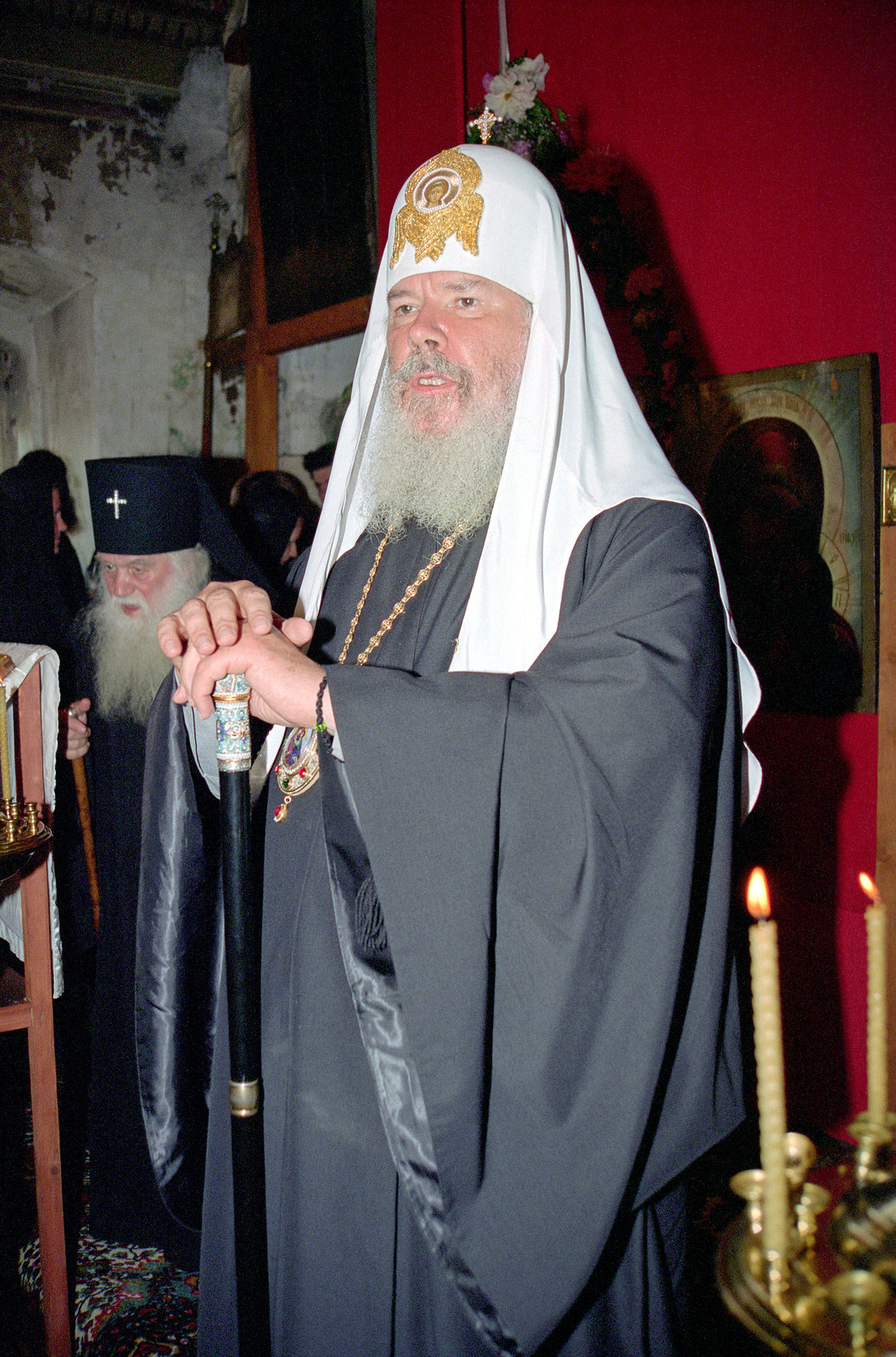 Patriarch Alexy II of Moscow visited Nikolsky monastery in Pereslavl and spoke to people.